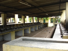 Pilgrimers Kitchen (traditional) at Periyanayagi Madha Shrine